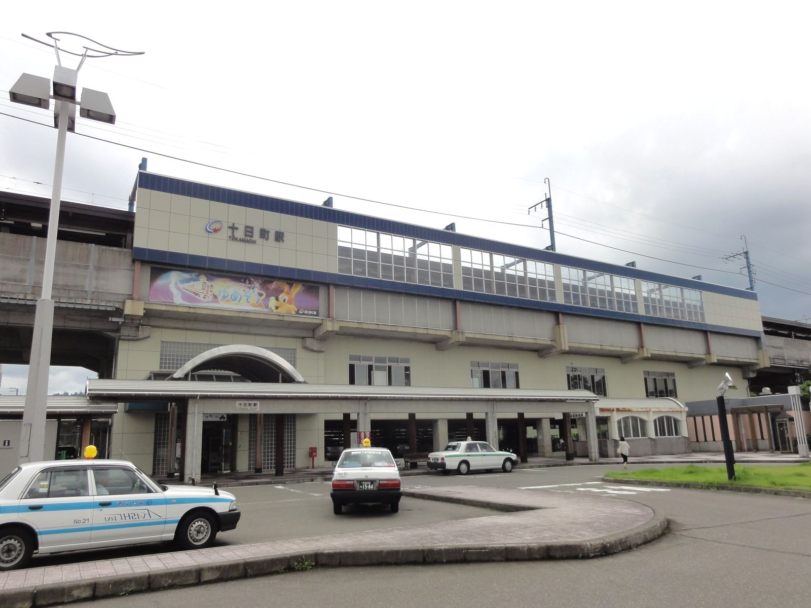 Tokamachi Station west side